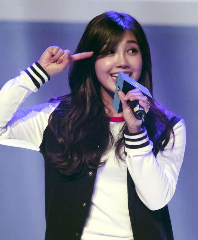 Jung Eunji at Go Ham! Talk Concert, 20 February 2014